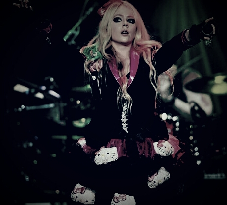 Avril Lavigne - Hello Kitty (Live at Casino Rama